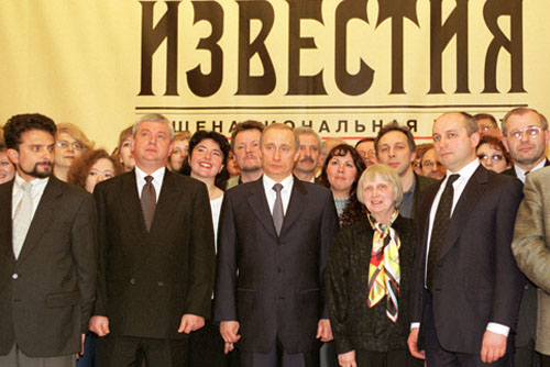 MOSCOW. President Putin among the staff of the newspaper Izvestia.